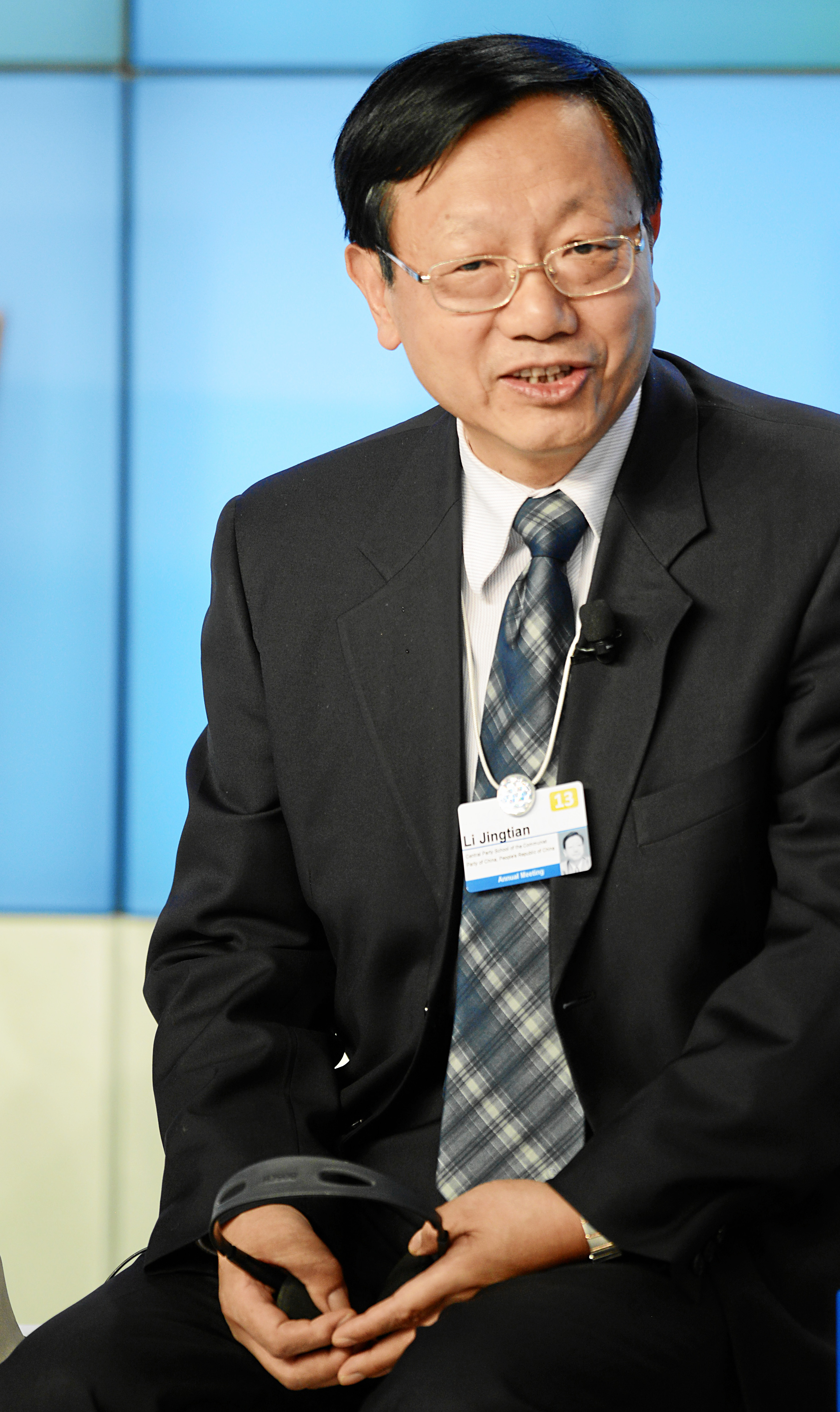 DAVOS/SWITZERLAND, 23JAN13 - Li Jingtian, Senior Vice-President, Central Party School of the Communist Party of China, People's Republic of China reflects during the televised session 'Caixin - China 2020: Vision Meets Reality - Building Resilient Institutions' at the Annual Meeting 2013 of the World Economic Forum in Davos, Switzerland, January 23, 2013.. . Copyright by World Economic Forum. . Michael Wuertenberg